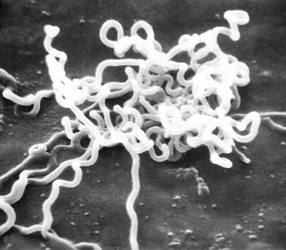 Electron micrograph of Treponema pallidum on cultures of cotton-tail rabbit epithelium cells (Sf1Ep). Treponema pallidum is the causative agent of syphilis. In the United States, over 35,600 cases of syphilis were reported by health officials in 1999.